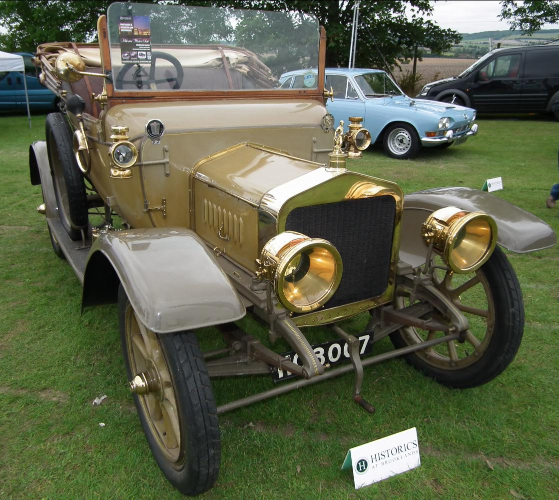 1911 Vulcan 15.9 open 2-seater4-cylinders 2413 cc chassis 1155 engine 1155 Kop Hill, Princes Risborough 2013